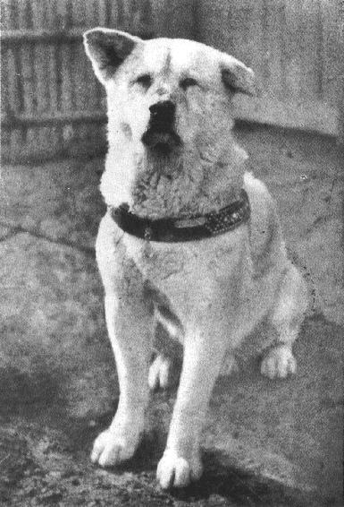 Hachikō in his later years.